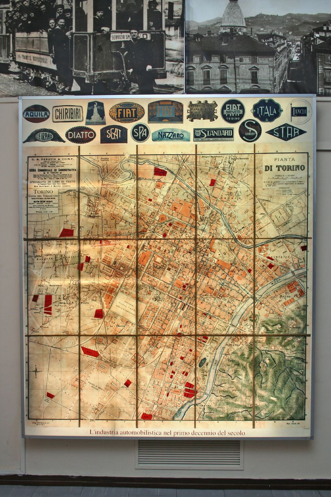 Automobile industry map in Italy 1910s..